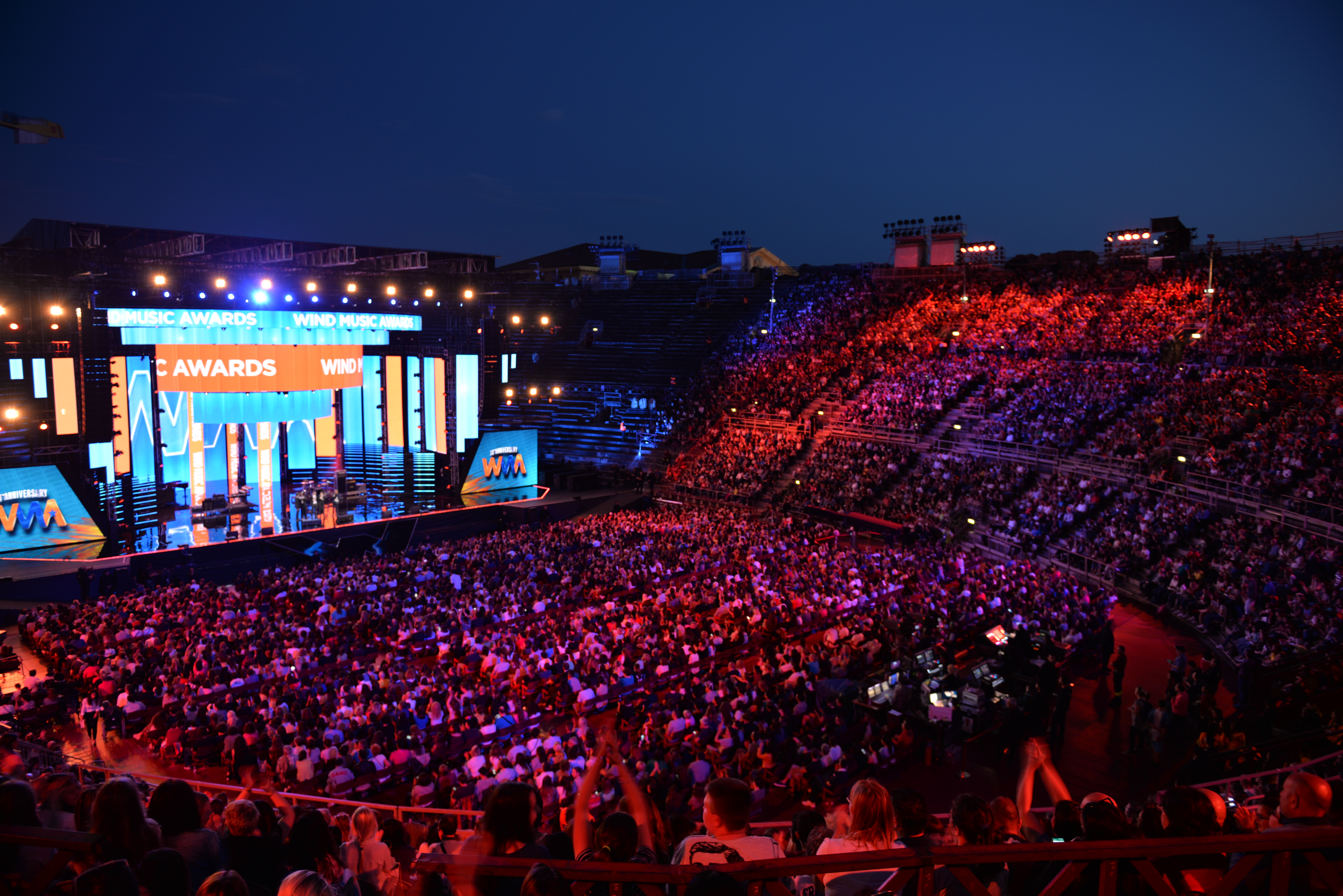 Il Volo during the 2016 Wind Music Awards ceremony at Verona Arena